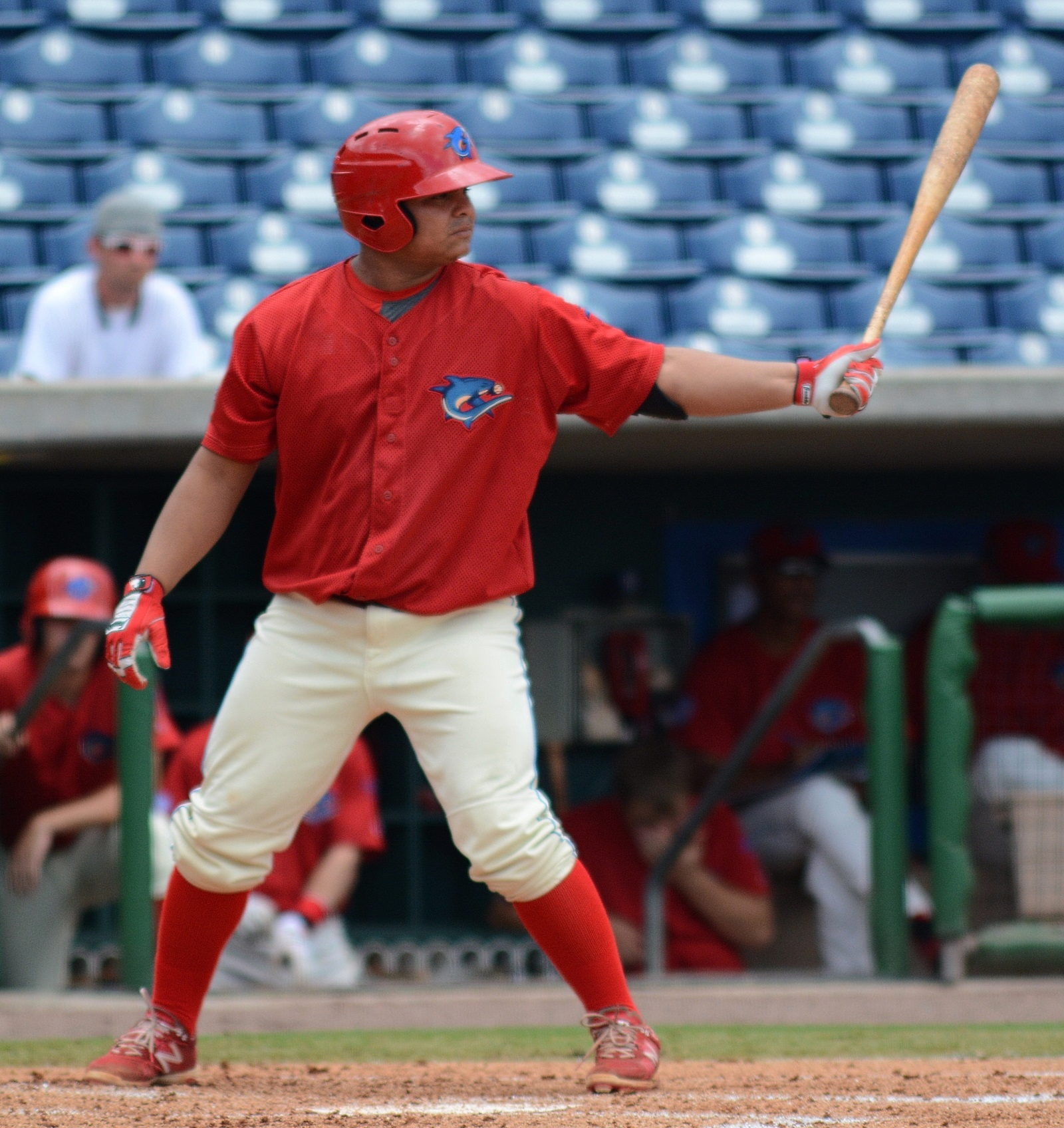 Clearwater Threshers first baseman Willians Astudillo bats against Bradenton on July 26, 2015.